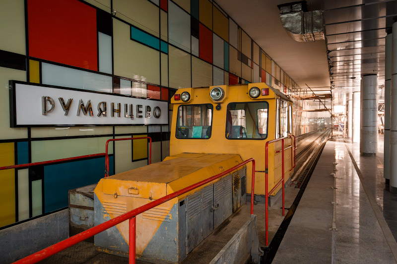 Diesel locomotive MGM1 at Rumyantsevo station in Moscow Metro